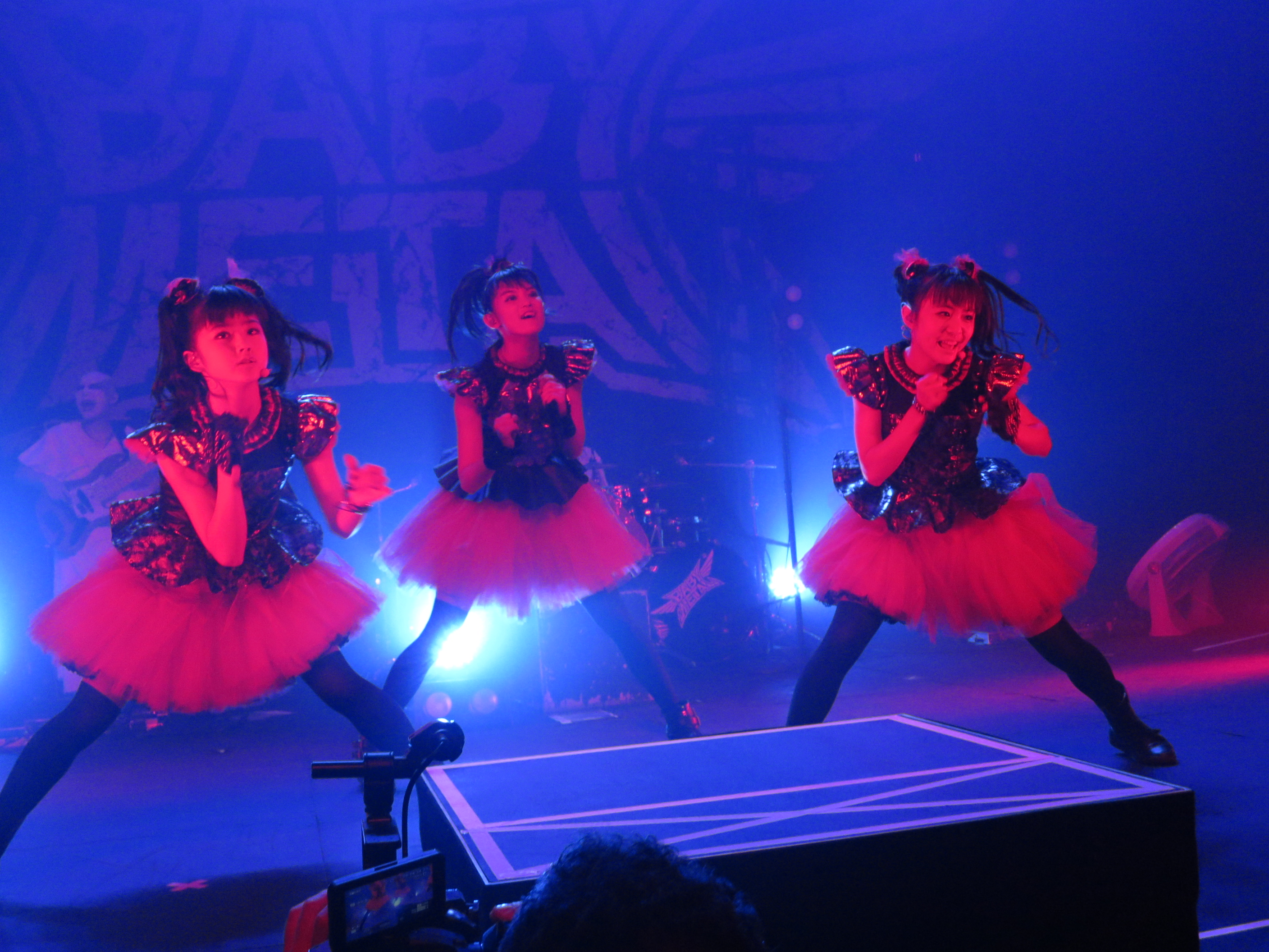 Babymetal performs live at The Fonda Theatre in Los Angeles, CA, USA.